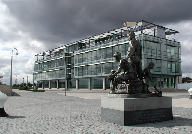 Waterfront Office Development, Hull The new Waterfront office building, so far unused, seen from the Bullnose to the west of Humber Dock Basin. The sculpture by Neil Hadlock, Mark DeGraffenried, Taylor Hadlock (see this image) was donated to the city in 2001 and commemorates the 2.2 million people who passed through Hull and other Humber ports on their way to America from northern Europe between 1836 and 1914. There is an identical sculpture on the docks in Liverpool - image and image. .